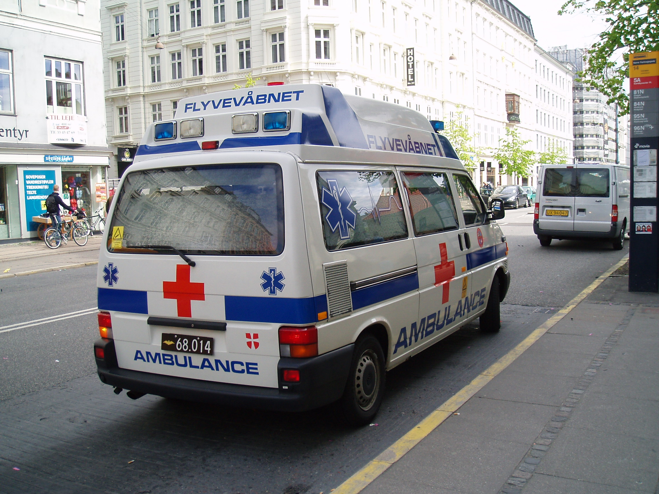 Royal Danish Airforce Volkswagen T4 ambulance photographed in inner Copenhagen. The ambulance has regular blue lights for emergency use, red cross for military/war time use, Star of Life as a civilian emergency symbol and one red light on roof for use on military runways